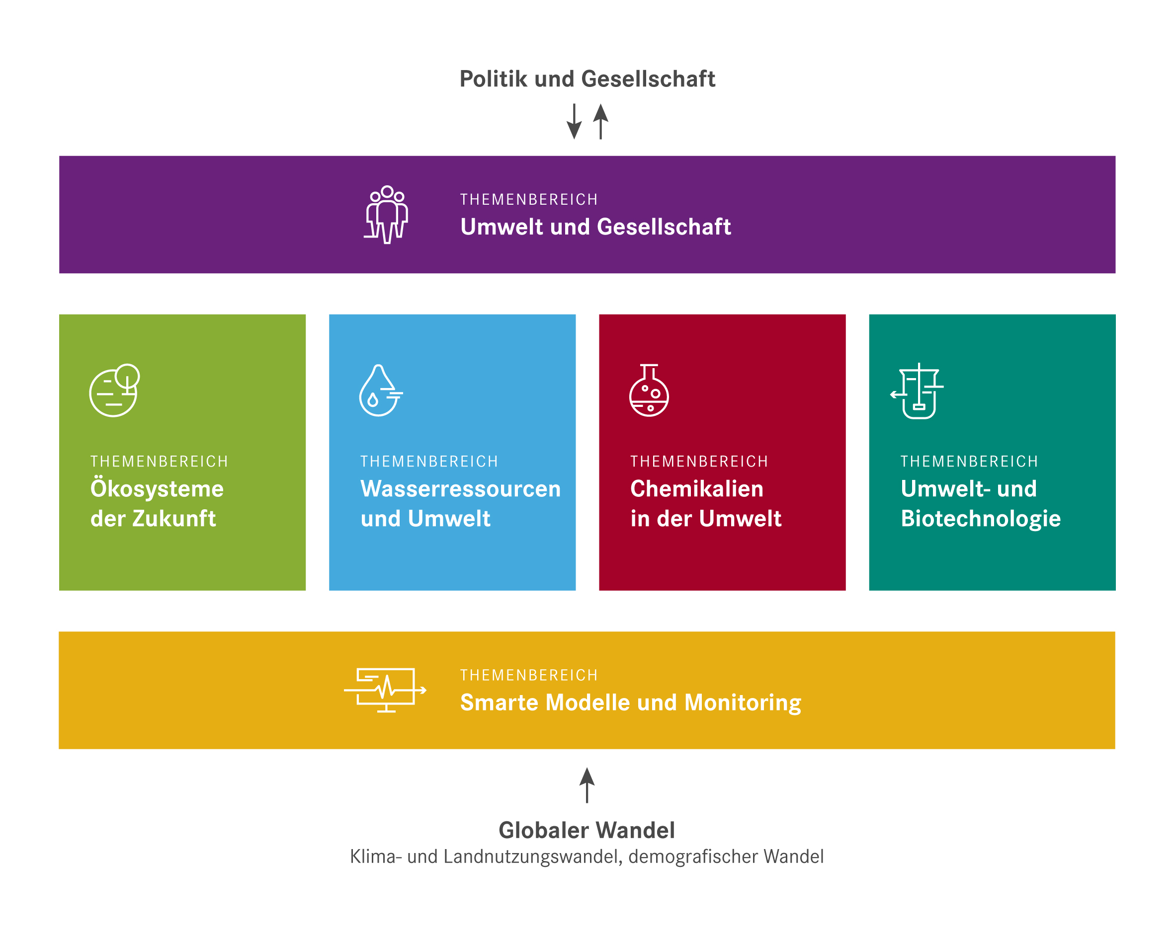 Research structure Helmholtz Centre for Environmental Research (UFZ)